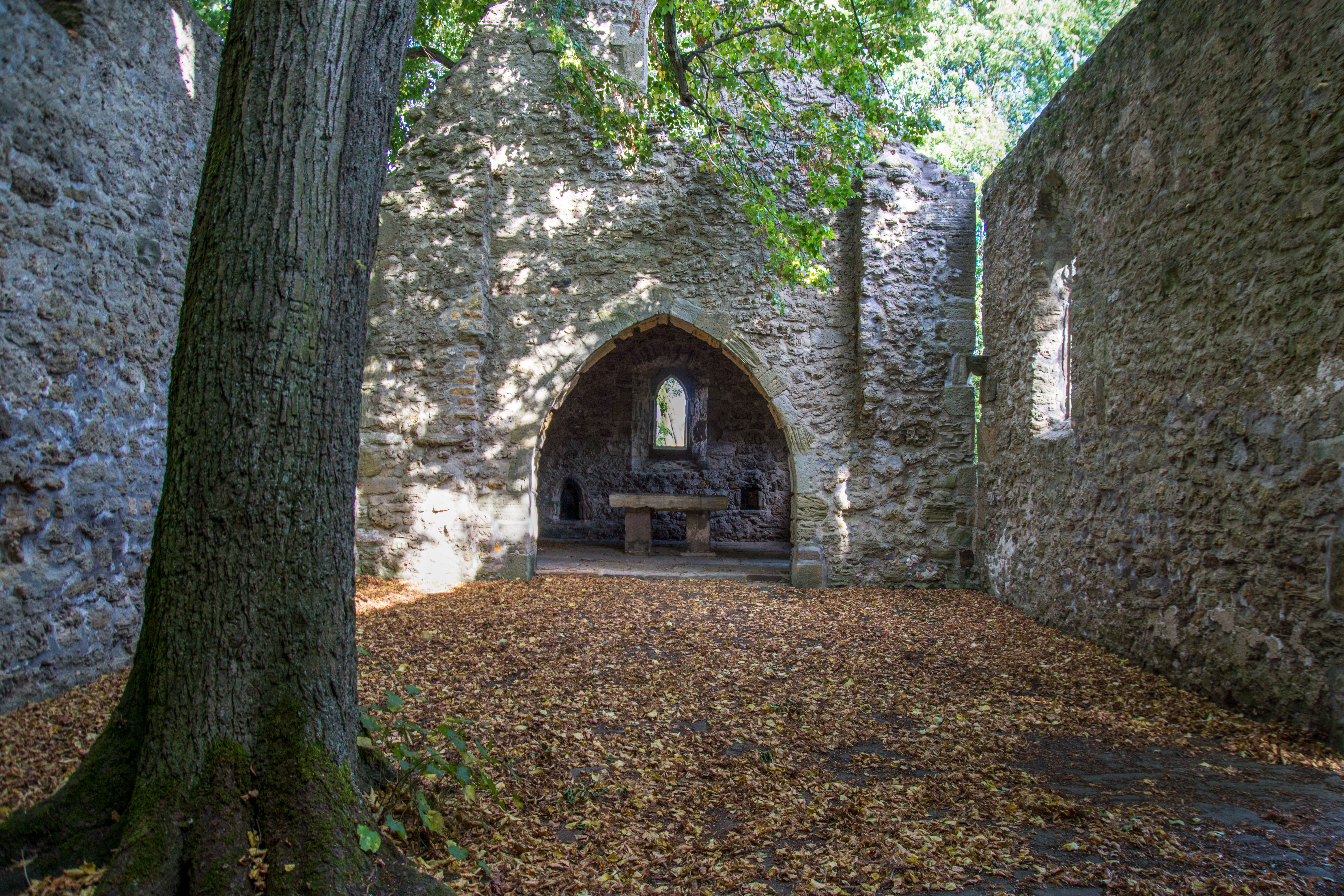 Totenkirche in Abterode, a part of Meißner